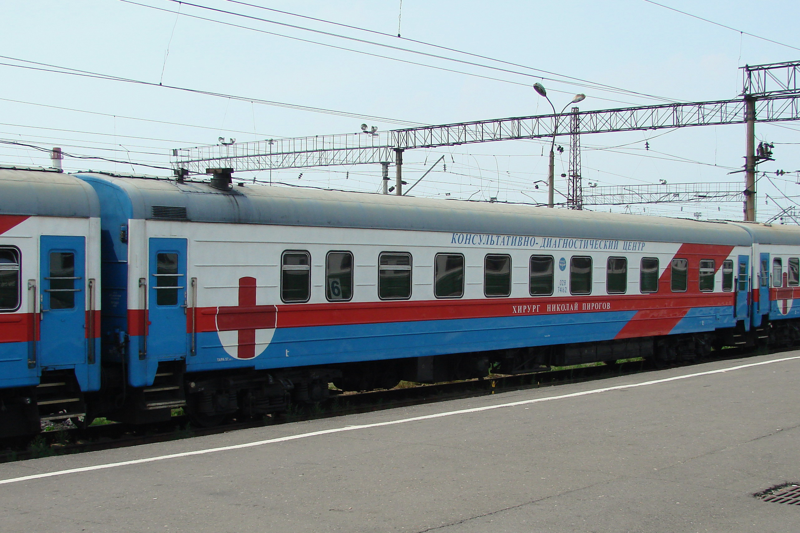 Russia, Yaroslavl, medical train «Surgeon Nikolay Pirogov»